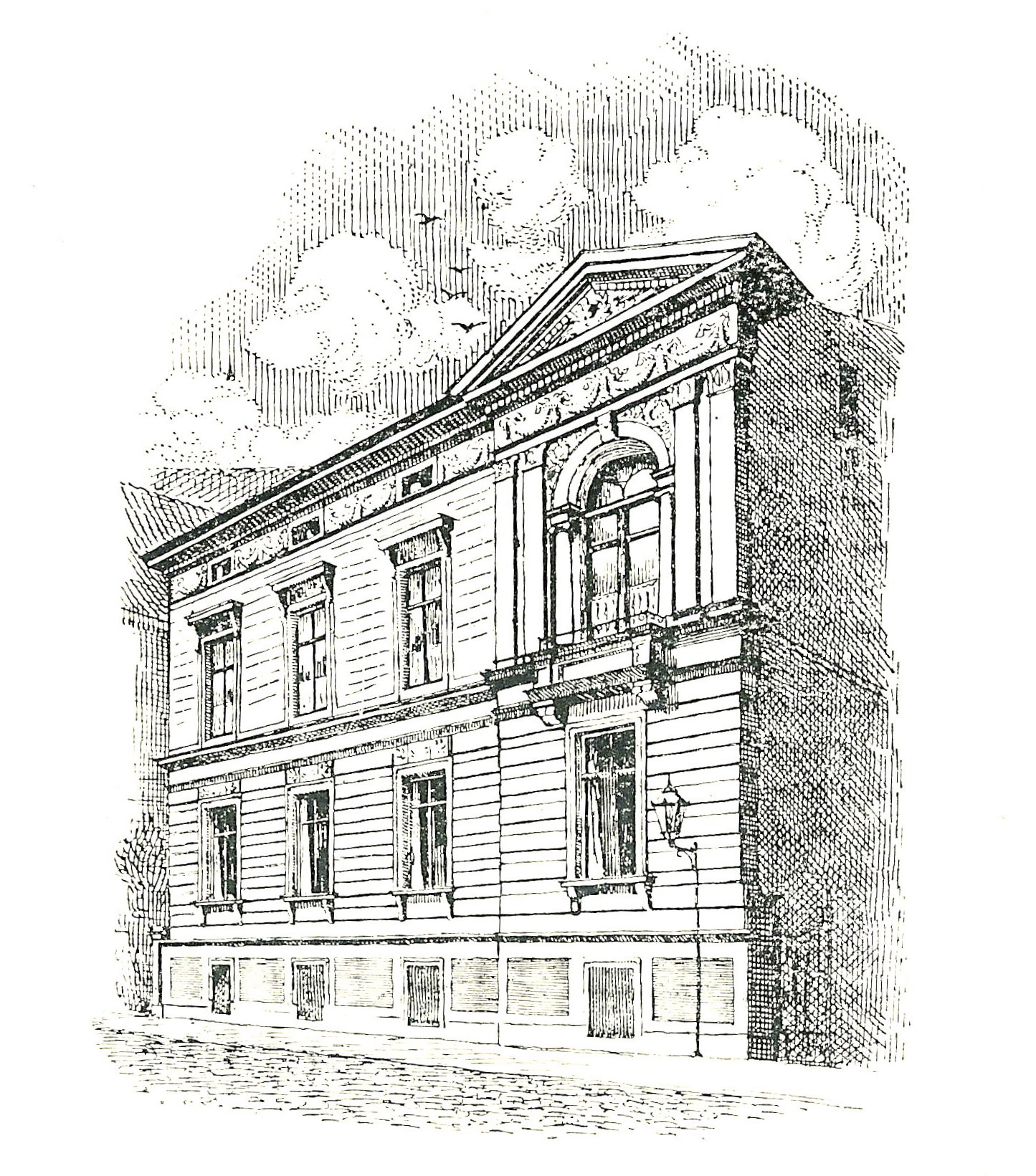 Former house of the Corps Thuringia Leipzig, Färberstrasse 13, Leipzig